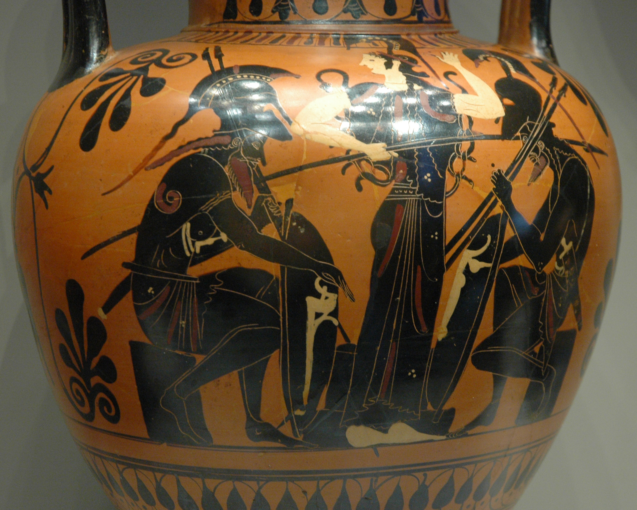 Achilles and Ajax playing a board game. Attic black-figure amphora.